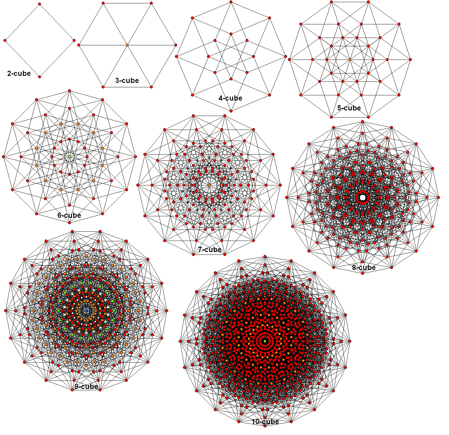 hypercube Petrie polygon projection collection dimensions 2-10. Vertices are colored by overlapping count modulo 12: red(200)=1, orange(210)=2, yellow(220)=3, light-green(120)=4, green(020)=5, light-cyan(021)=6, cyan(022)=7, light-blue(012)=8, blue(002)=9, purple(102)=10, magenta(202)=11, light-magenta(201)=12